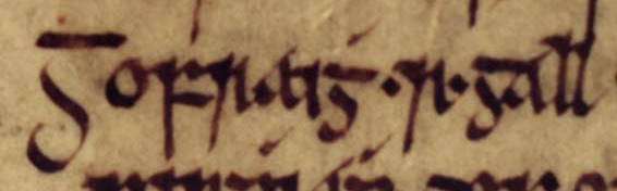 An excerpt from folio 18v of Oxford Bodleian Library MS Rawlinson B 488 (the Annals of Tigernach): "Gofraidh rí Gall". The excerpt concerns Gofraid mac Amlaíb meic Ragnaill, King of Dublin (died 1075).